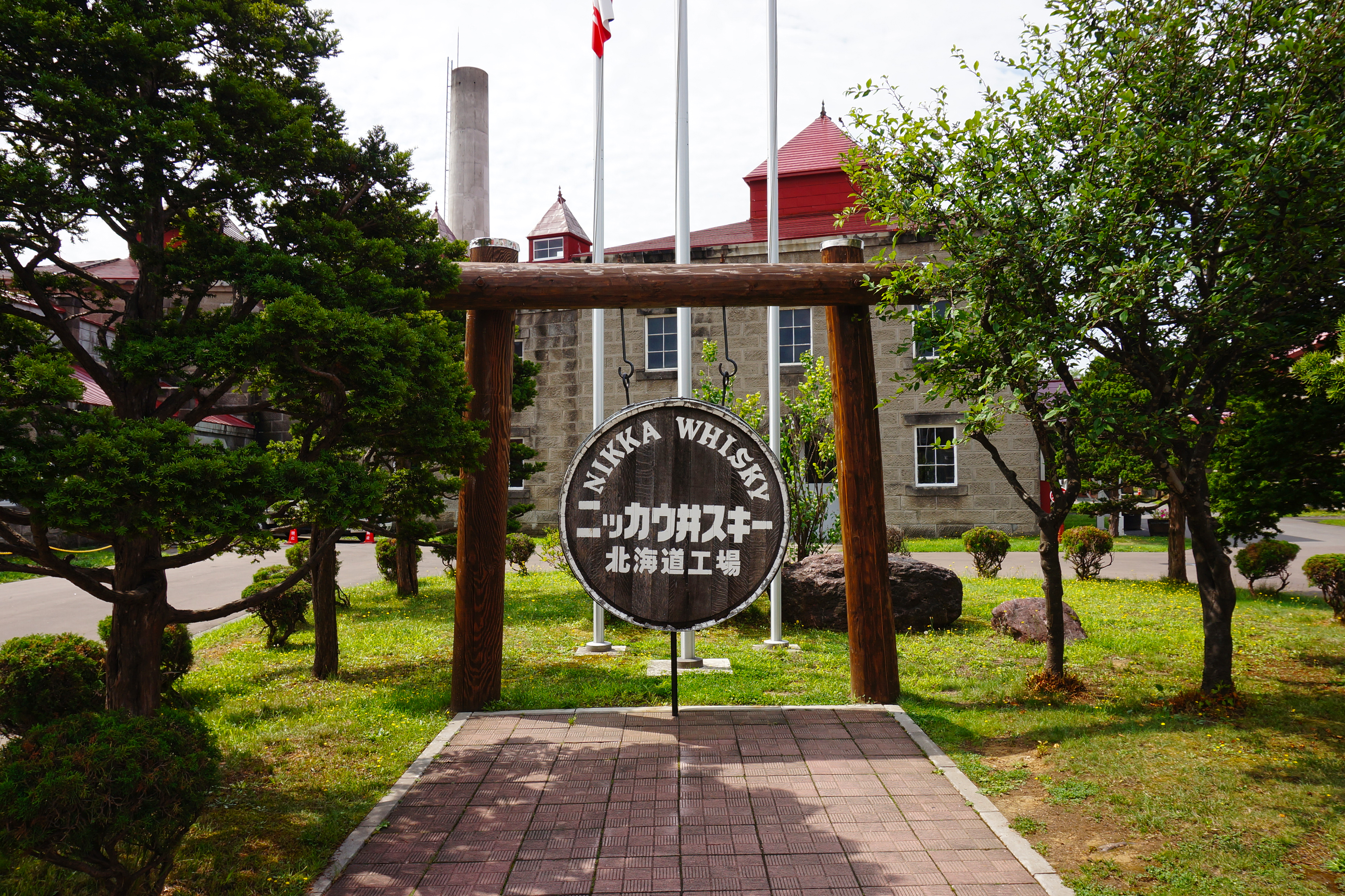 Nikka Wisky Yoichi Distillery in Yoichi, Hokkaido prefecture, Japan.